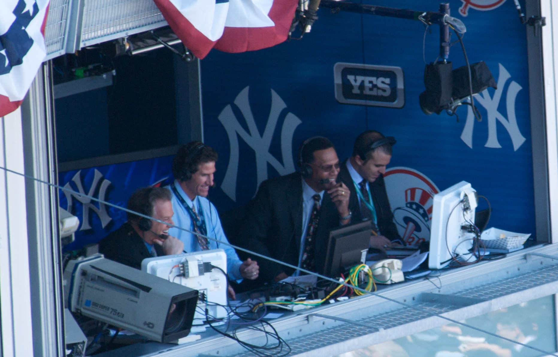 L-R: Michael Kay, Paul O'Neill, Ken Singleton, Ryan Ruocco in the YES broadcast booth at Yankee Stadium. Cropped from original Flickr image.